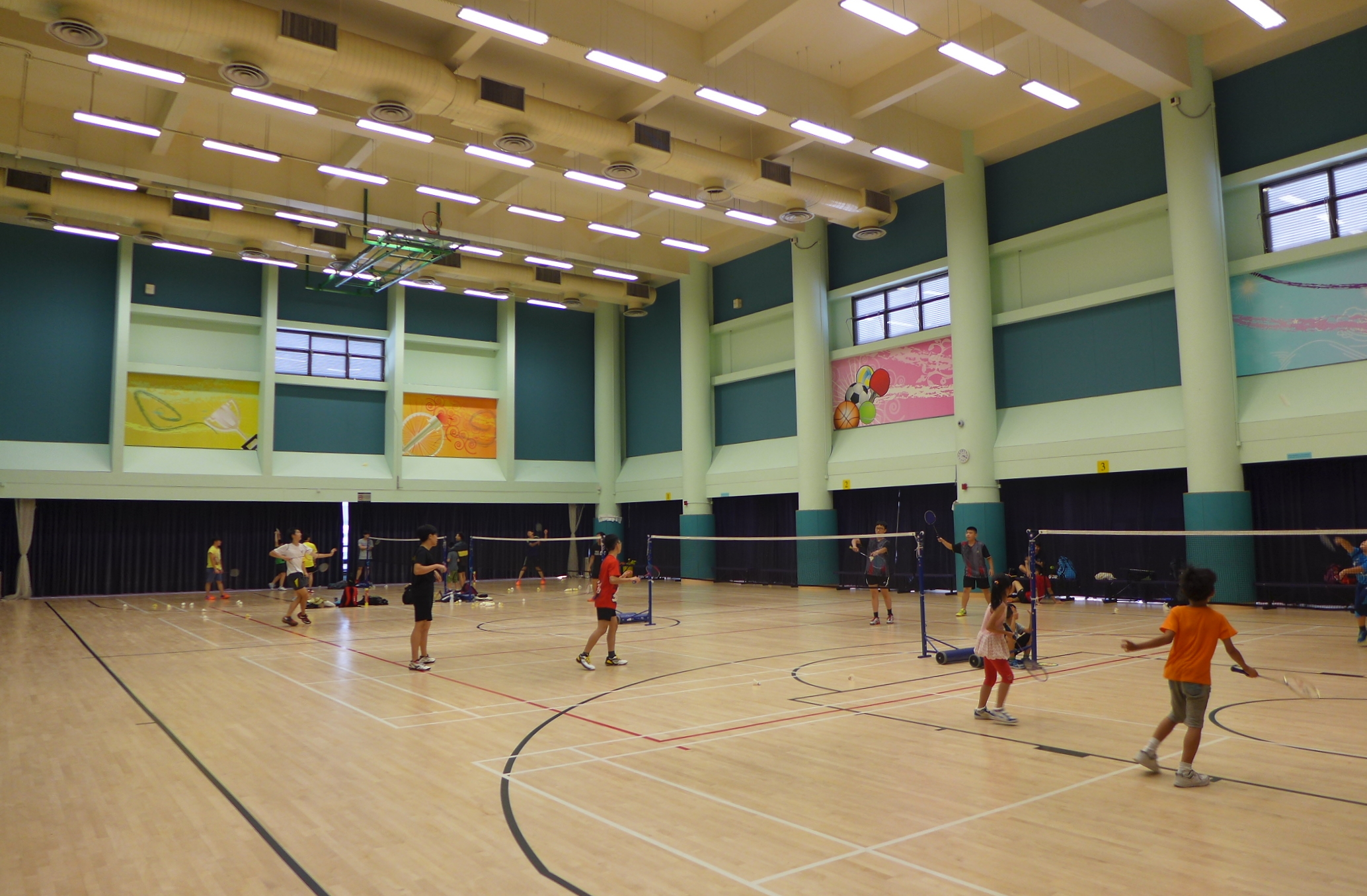 Shui Wo Street Sports Centre Arena